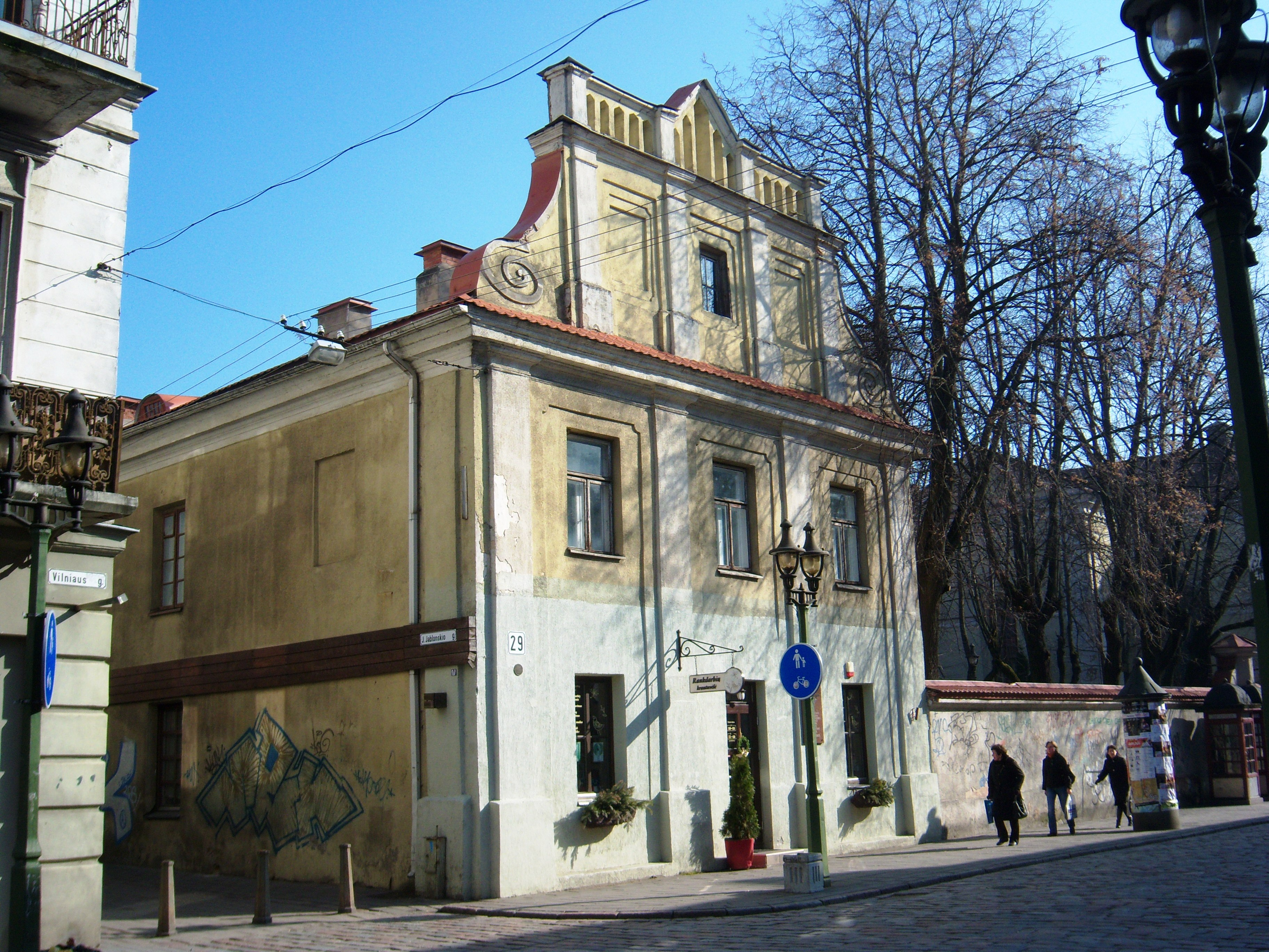 St. Ignatius of Loyola College, Kaunas, Lithuania